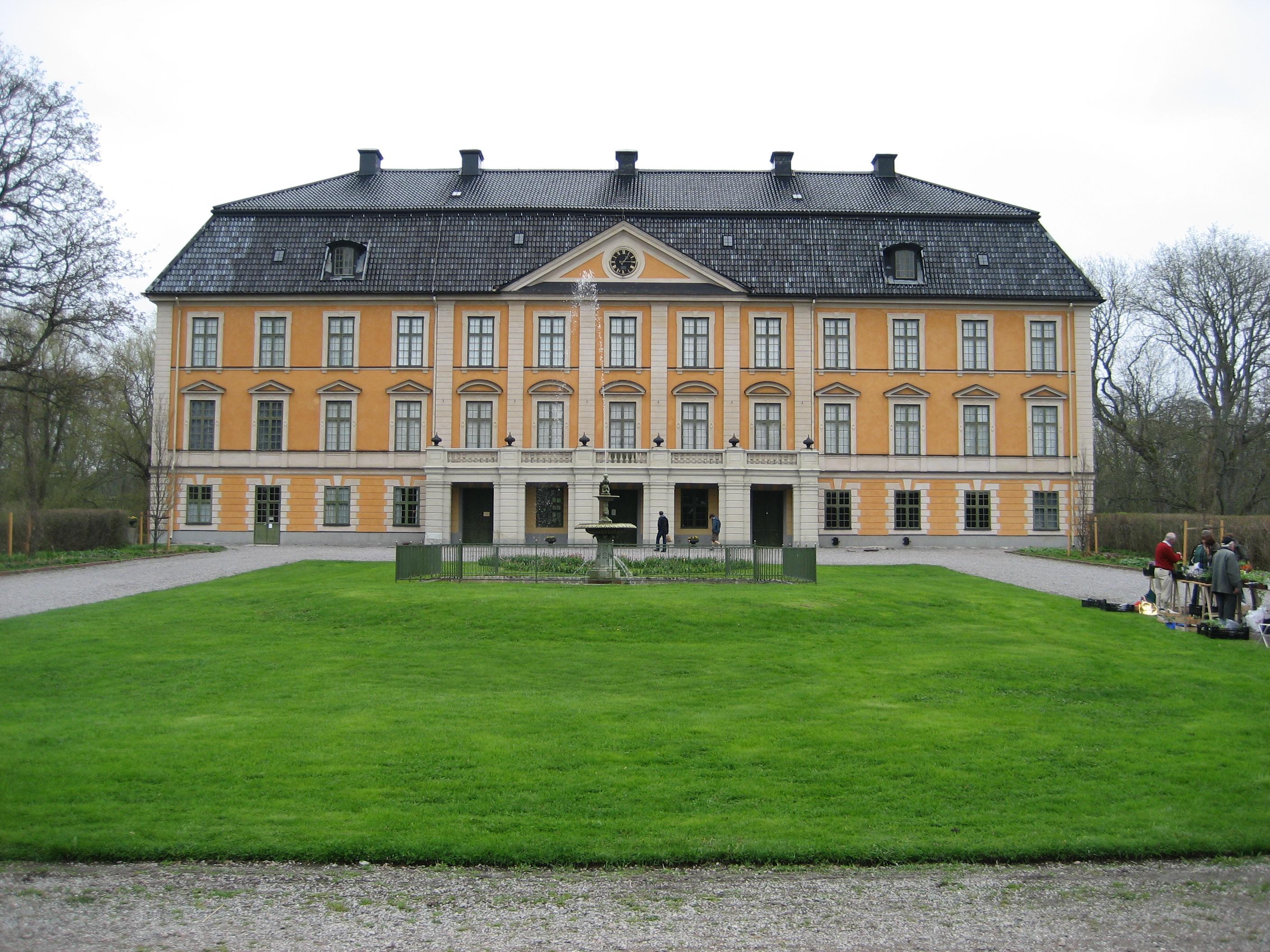 Nynäs slott, main building.